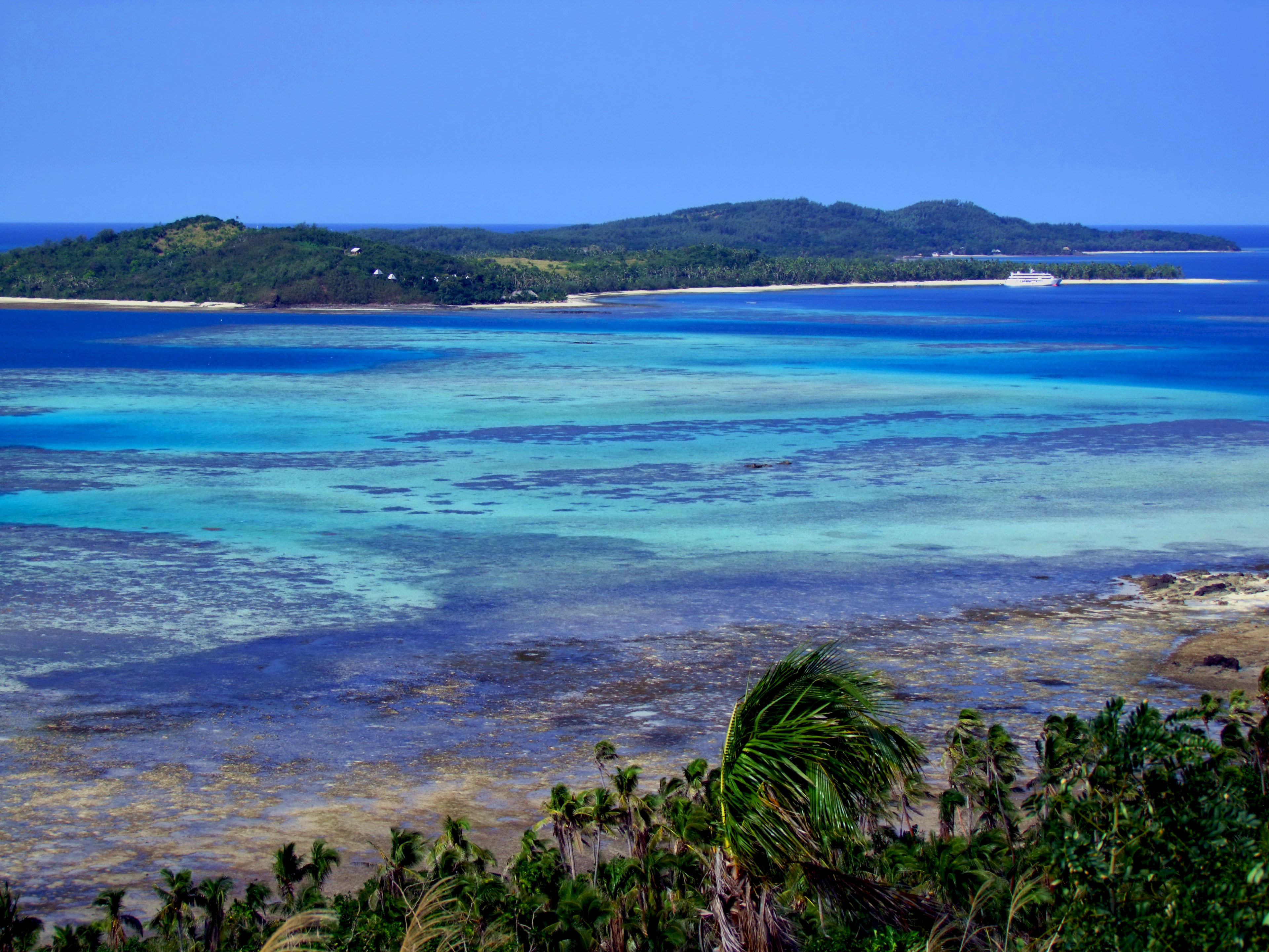 View from one island to another in the yasawa islands group